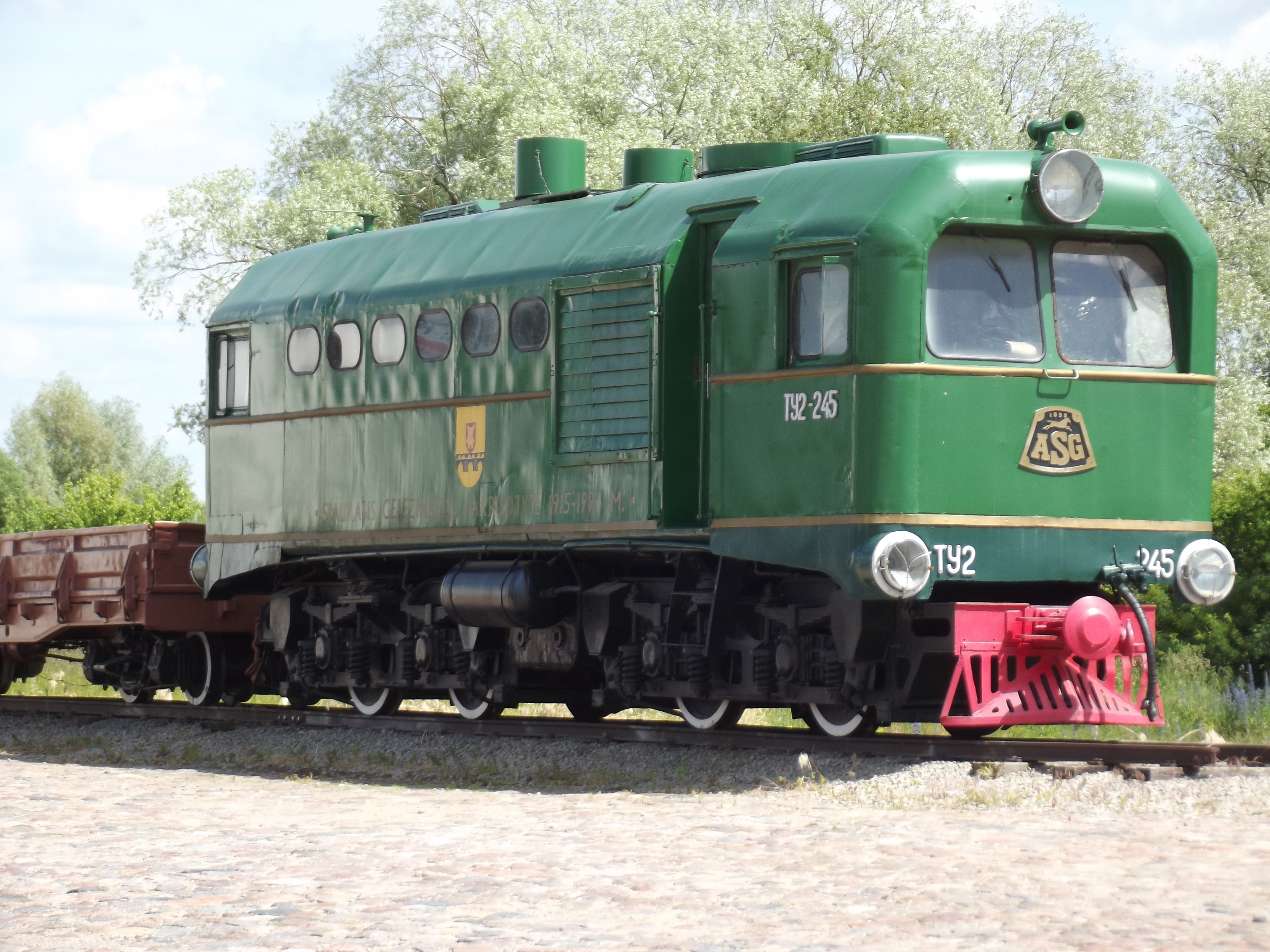 Narrow gauge, 750mm, railway train locomotive (monument) Tu2 in Pakruojis, Lithuania